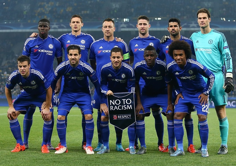 Chelsea F.C. 2015